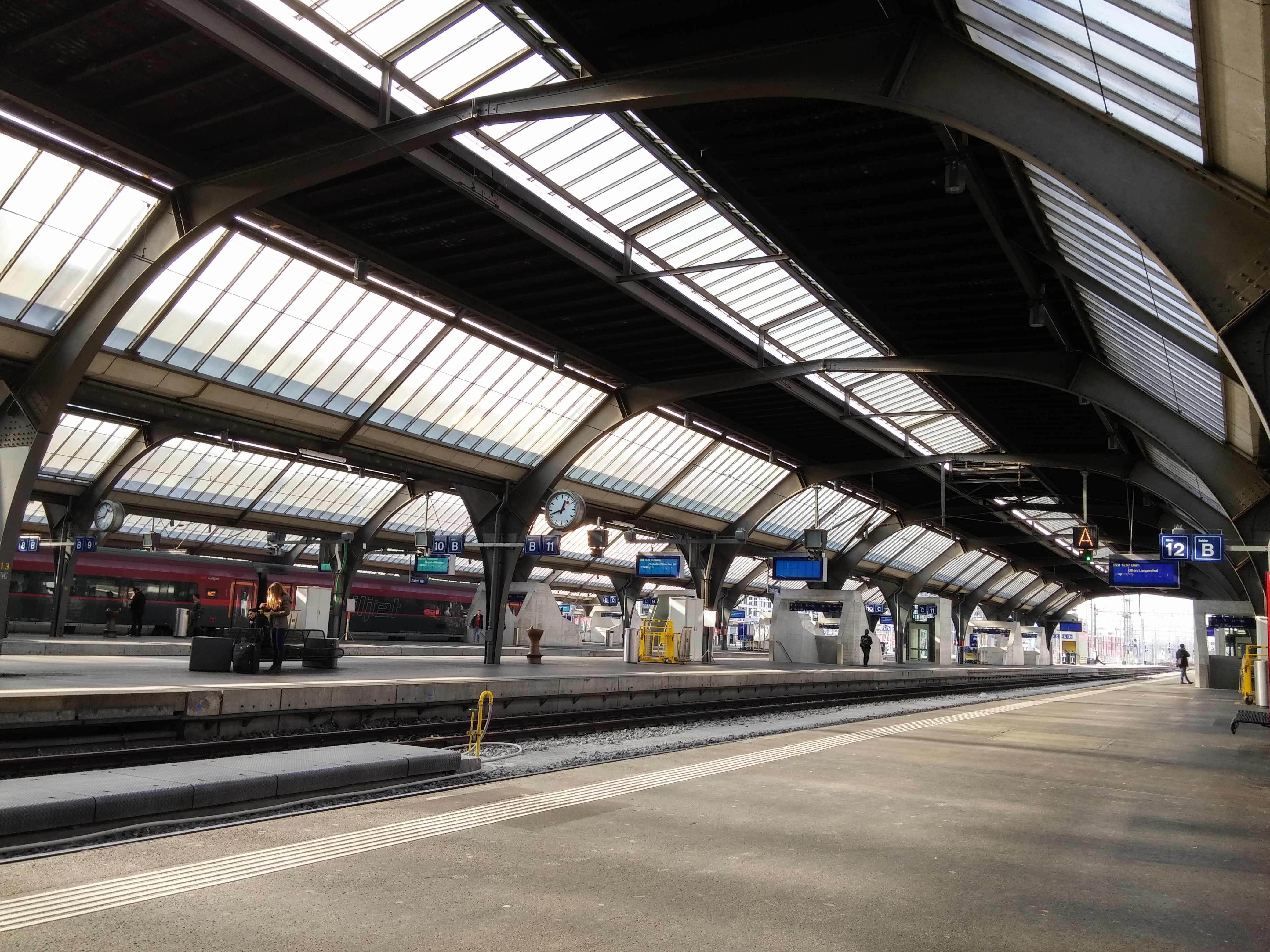 Some of the tracks that are above ground.